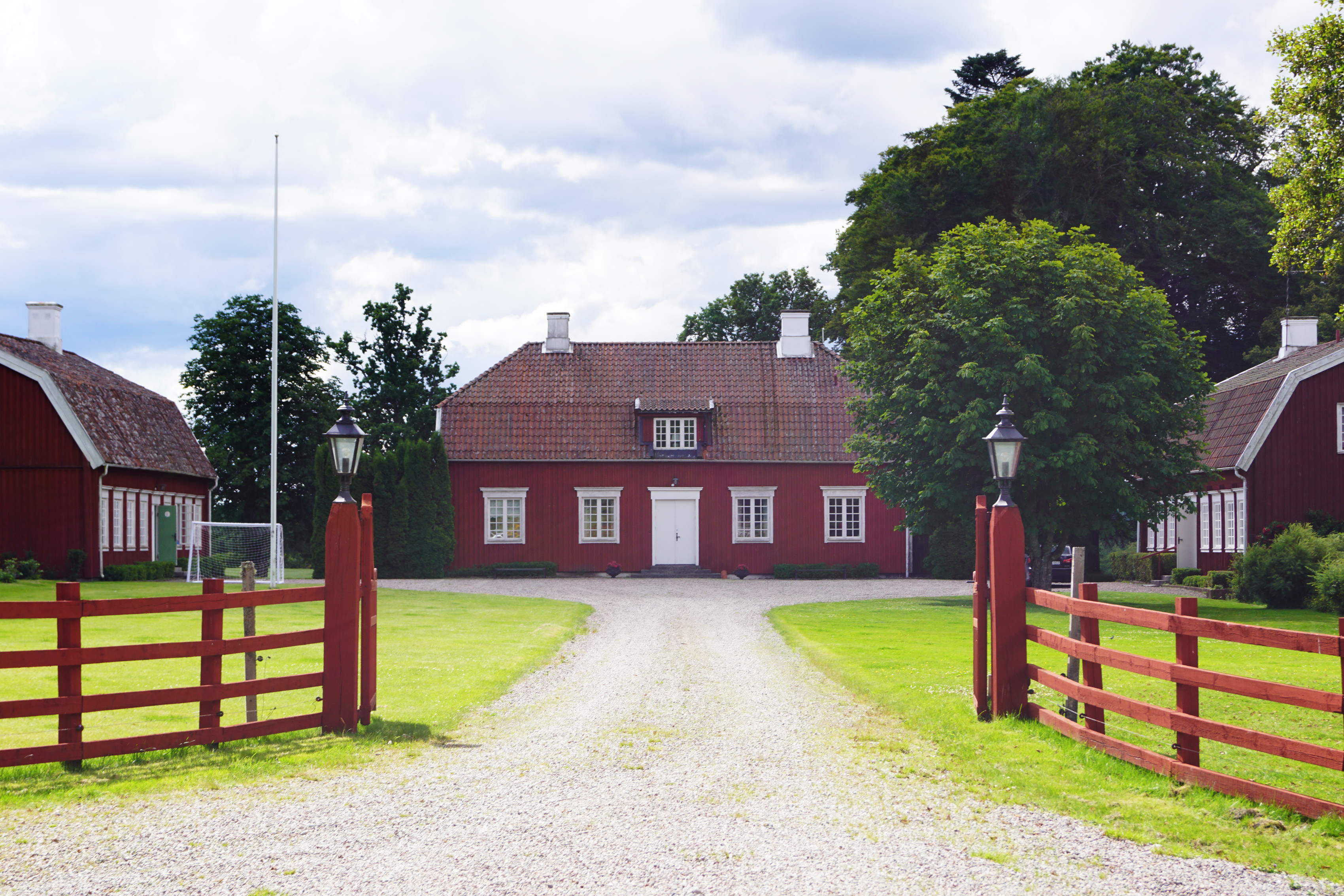 Livered seat farm in Hålanda socken, Ale Municipality, Sweden.